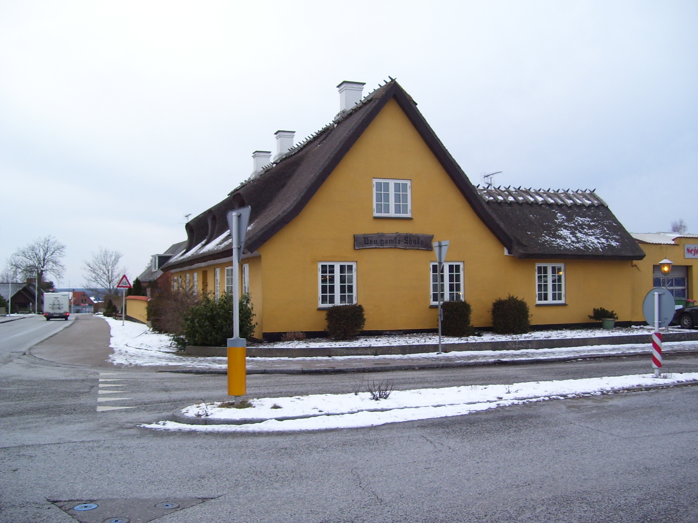 old School in Ramlose, Denmark